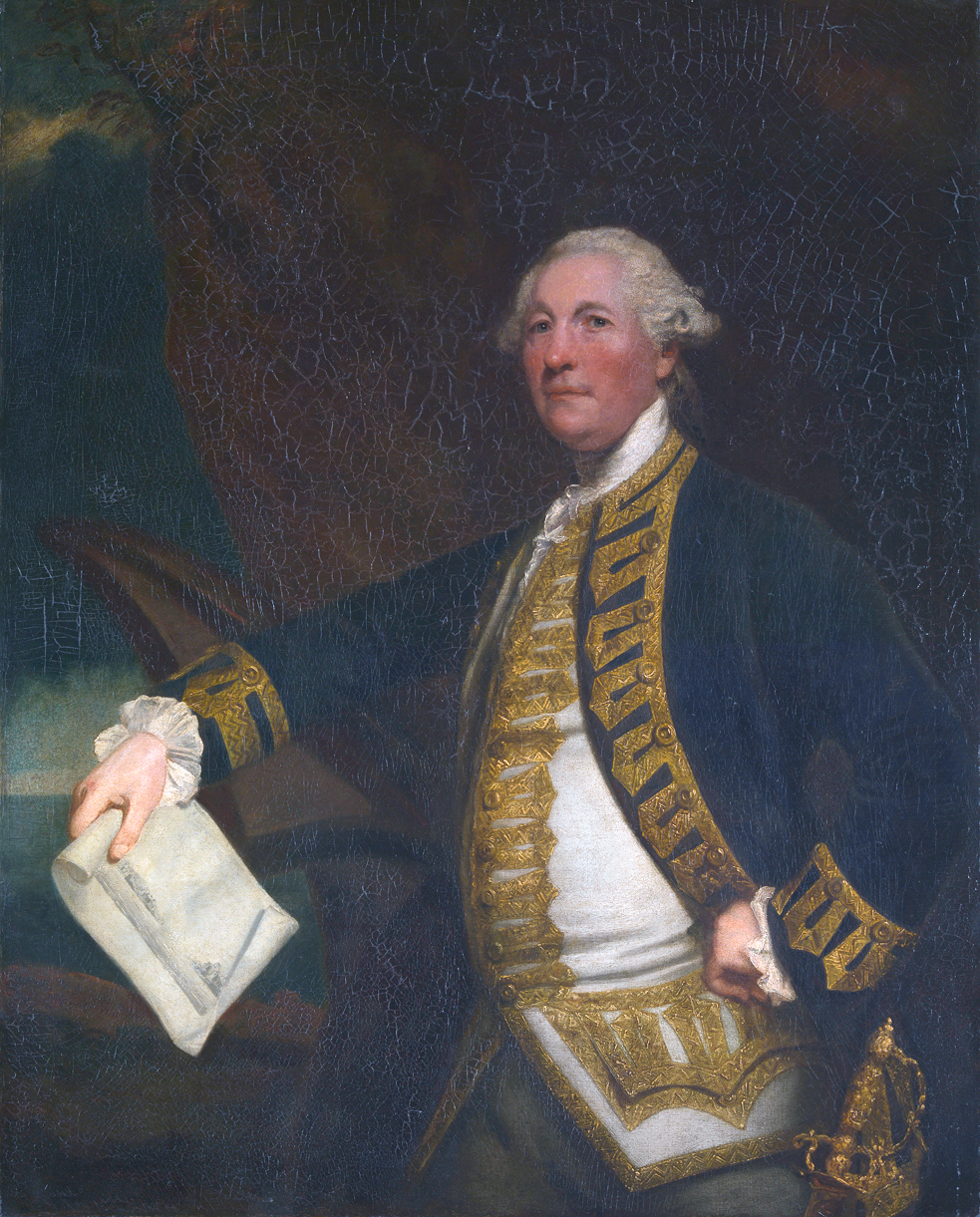 Commodore Sir William James (1721–83).